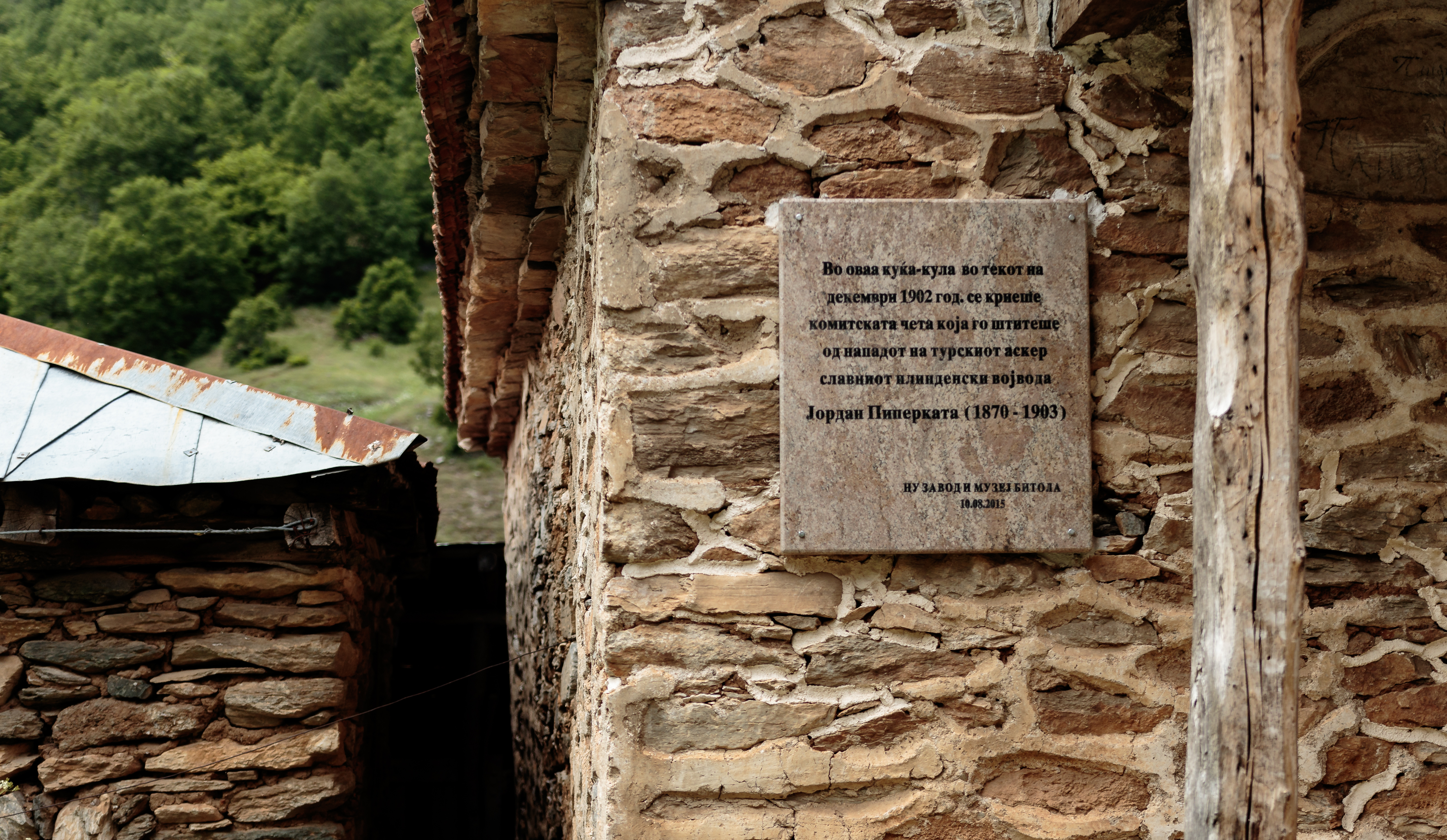 Tower of Jordan Piperkata in the village Brezovo